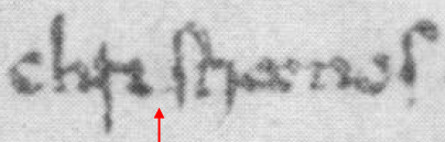 Detail of the 2nd Medicean manuscript of Tacitus (Codex Mediceus 68 II fol. 38 r: Annales 15:44.). showing the word Christianos. The large gap between the 'i' and 's' has been highlighted; under ultraviolet light an 'e' is visible in the gap, replacing the 'i'.